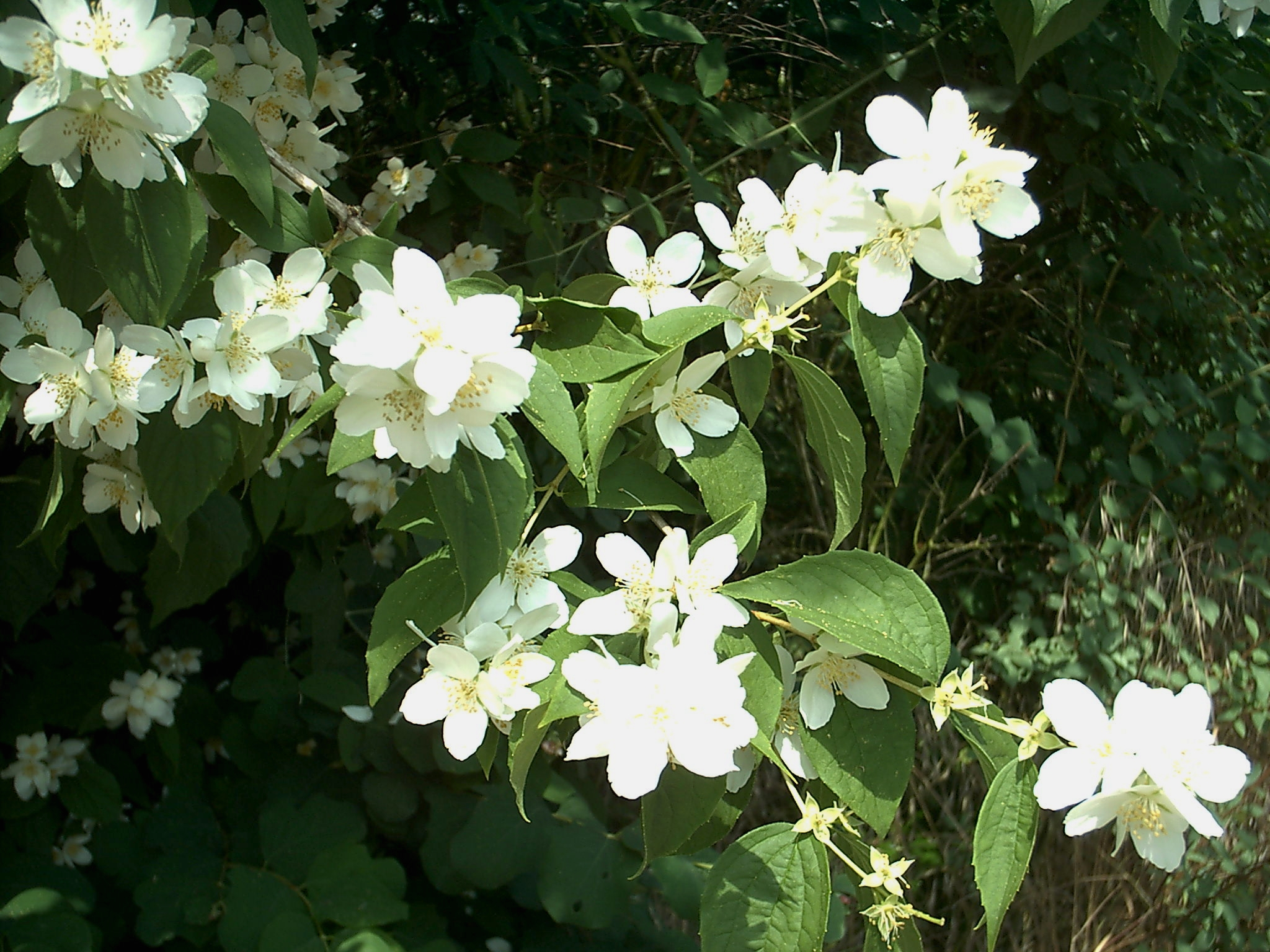 Philadelphus coronarius in Northeim / Germany